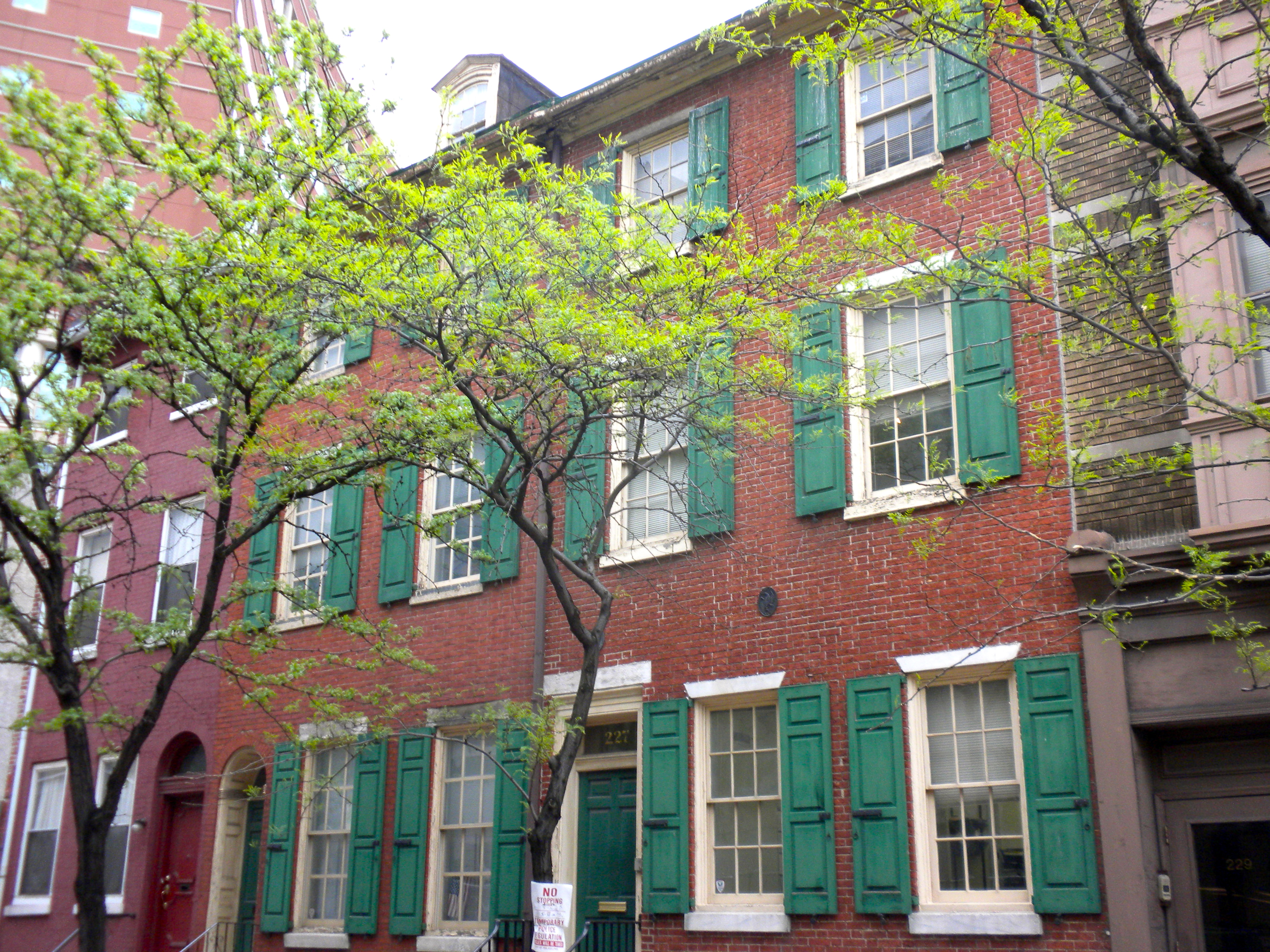 William Strickland Row (row houses) in Philadelphia on NRHP since September 14, 1977. At 215–227 South 9th Street. these are 223, 225, and 227 9th. 215 is still standing but at least 2 in the middle have been destroyed. Washington Square West neighborhood (near jefferson hospital) William Strickland, architect